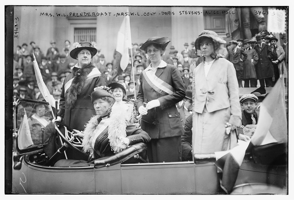 Title: Mrs. William Prendergast (Mary Agnes Hull Prendergast)1, Mrs. W.L. Colt (Elizabeth White Colt)2, Doris Stevens, Alice Paul